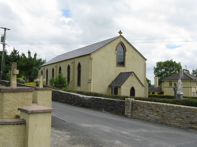 Termon R.C. Church, Co. Donegal